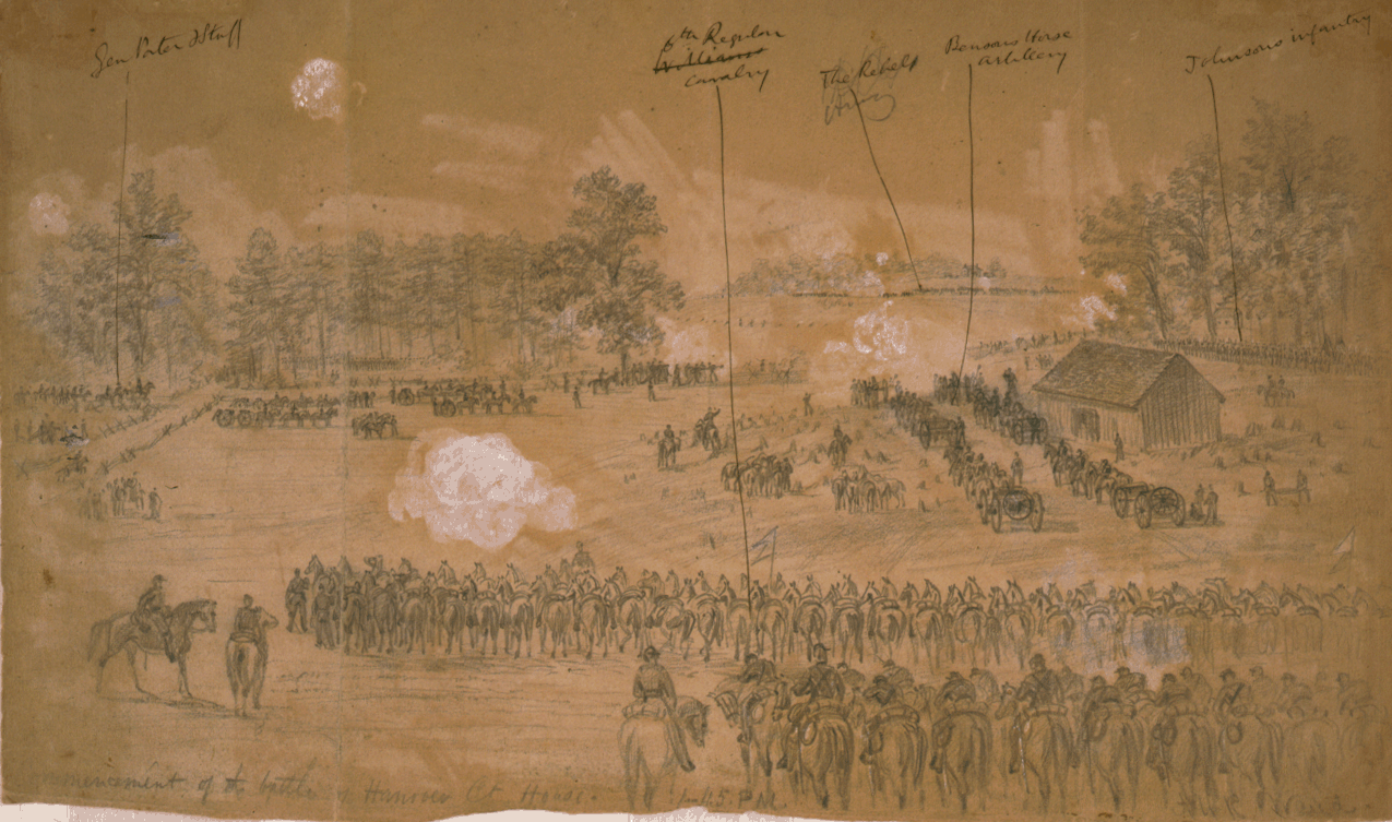 Commencement of the battle of Hanover Ct. House. 1:45 PM. MEDIUM: 1 drawing on brown paper : pencil and Chinese white ; 21.1 x 36.2 cm. (sheet).